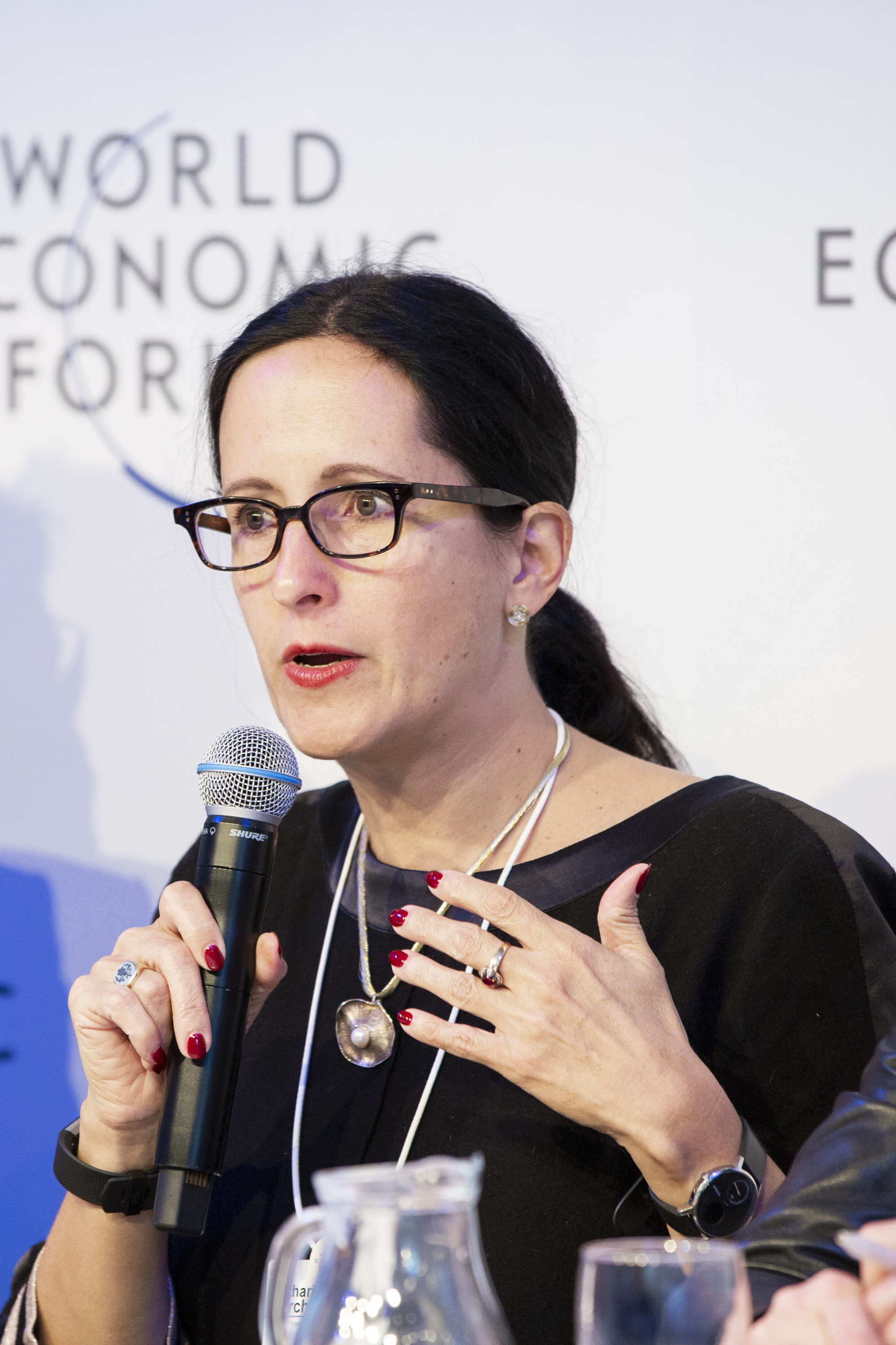 Katharina Borchert, Chief Open Innovation Officer, Mozilla, USA; Young Global Leader speaking during the Session "Making Technology Governance Work" at the Annual Meeting 2019 of the World Economic Forum in Davos, January 23, 2019. Congress Centre - xChange. Copyright by World Economic Forum / Faruk Pinjo